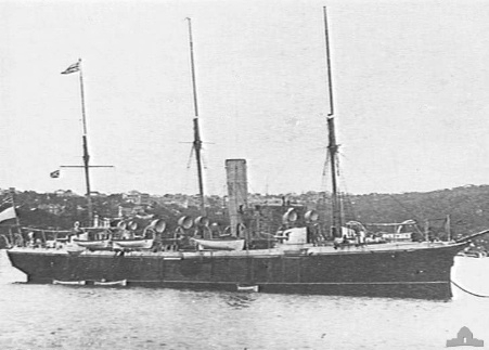 AWM caption : "SYDNEY, NSW. C.1897. STARBOARD SIDE VIEW OF THE THIRD CLASS CRUISER, FORMERLY TORPEDO CRUISER, HMS MOHAWK. NOTE THE PROMINENT 6 INCH GUNS TRAINED ON THE BROADSIDE."